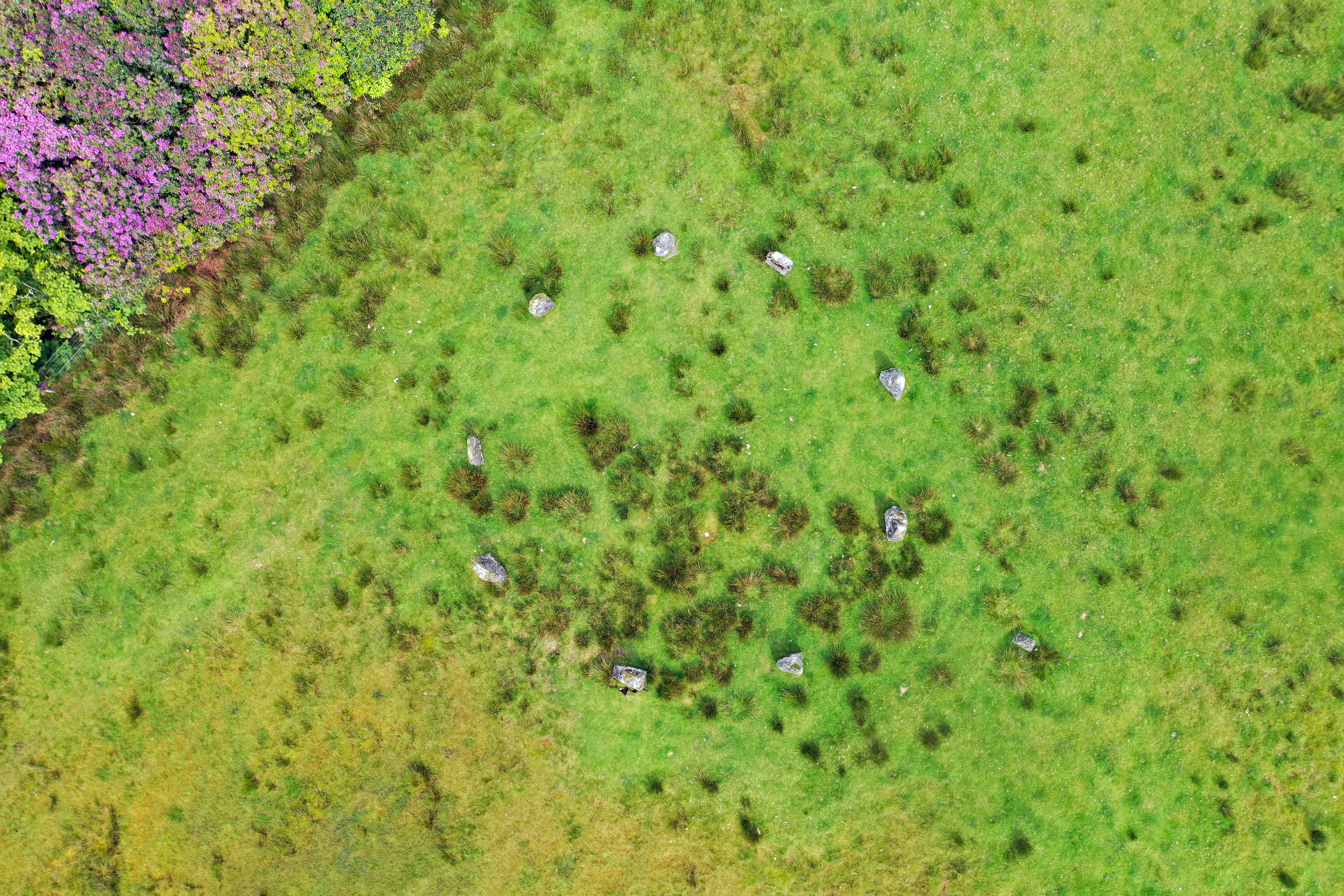 Lochbuie (Isle of Mull, Inner Hebrides, Scotland, UK)